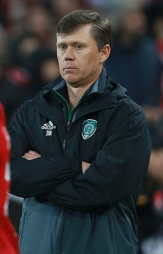 Igor Lediakhov coaching FC Akhmat Grozny in a game against FC Spartak Moscow.